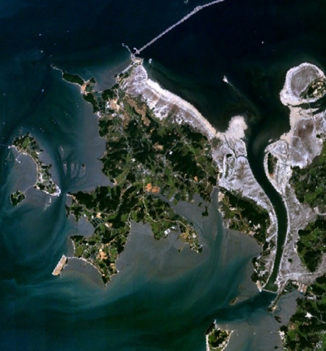 Daebudo